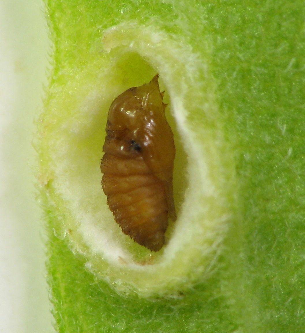 Asphondylia solidaginis pupa in its gall in goldenrod (Solidago). Pennypack Restoration Trust, Montgomery County, Pennsylvania, USA.